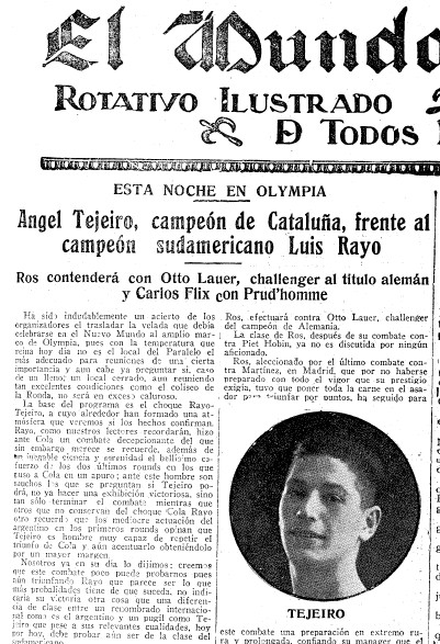 Newspaper cutting (Mundo Deportivo, june 10, 1927, p1): fight between Angel Tejeiro and Luis Rayo